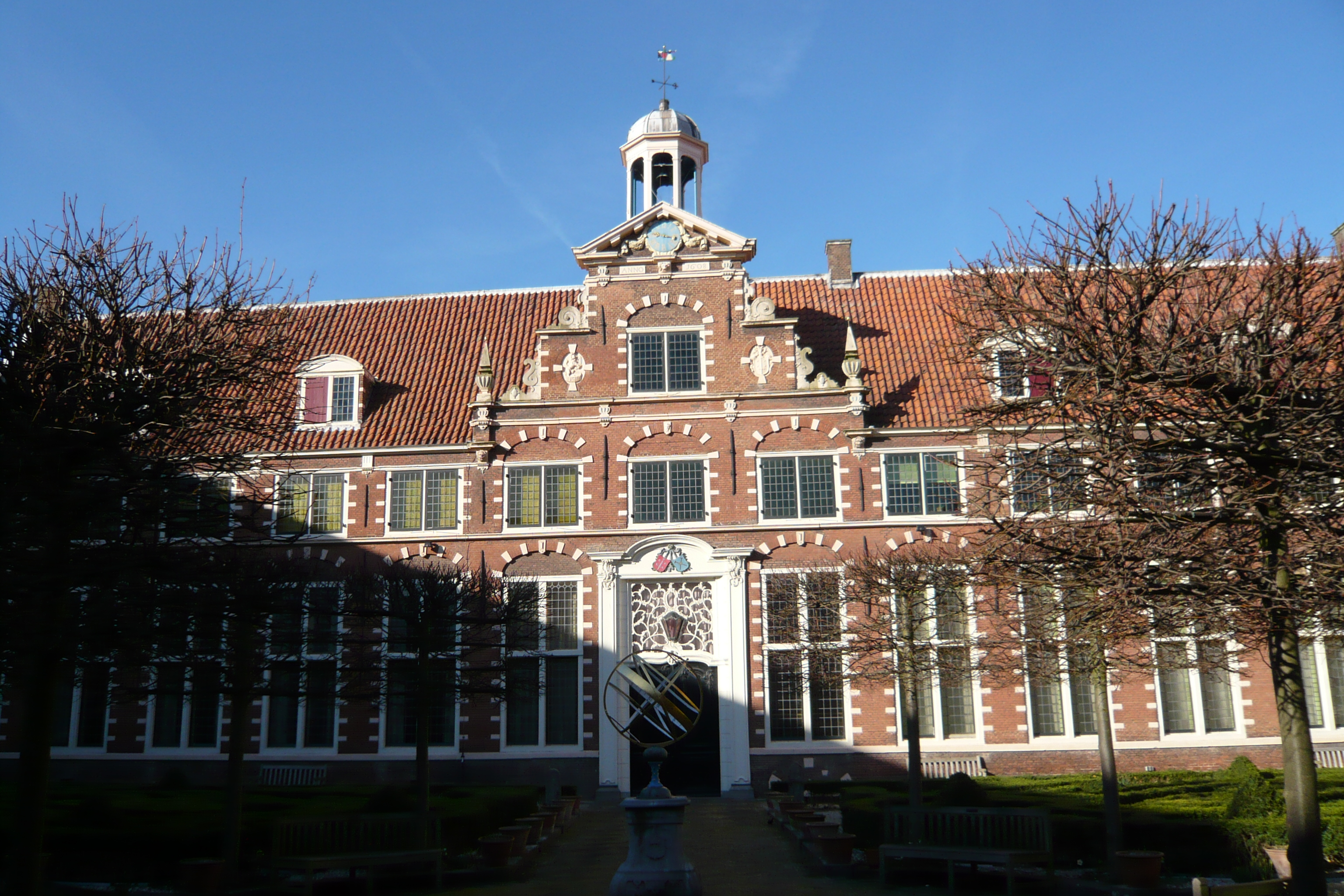 From the courtyard, photo of main hall "Oudemannenhuis" facade, Haarlem, the Netherlands. Currently reception rooms of the Frans Hals Museum.